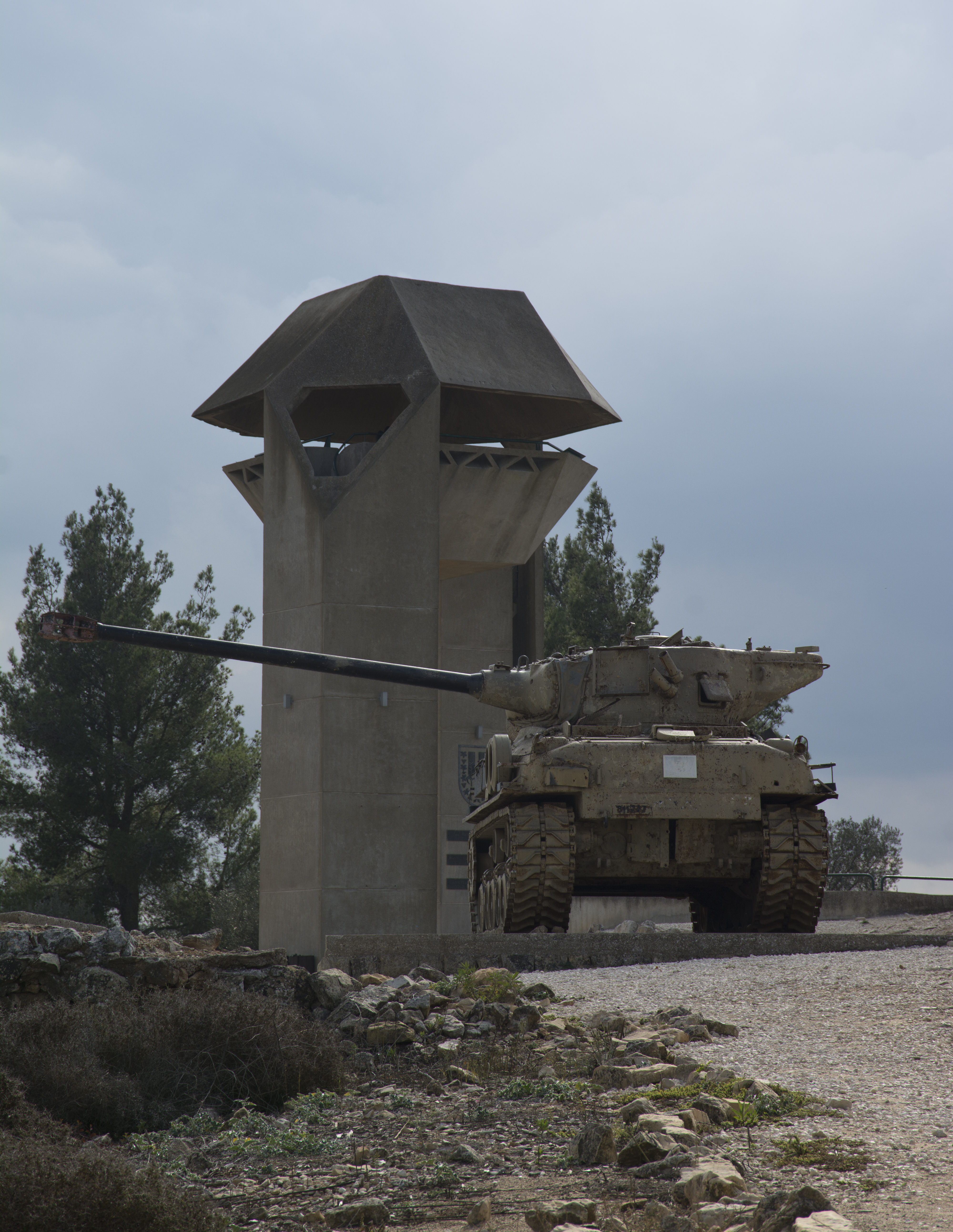 M51 Super Sherman,Harel Brigade Monument, Har Adar, Israel